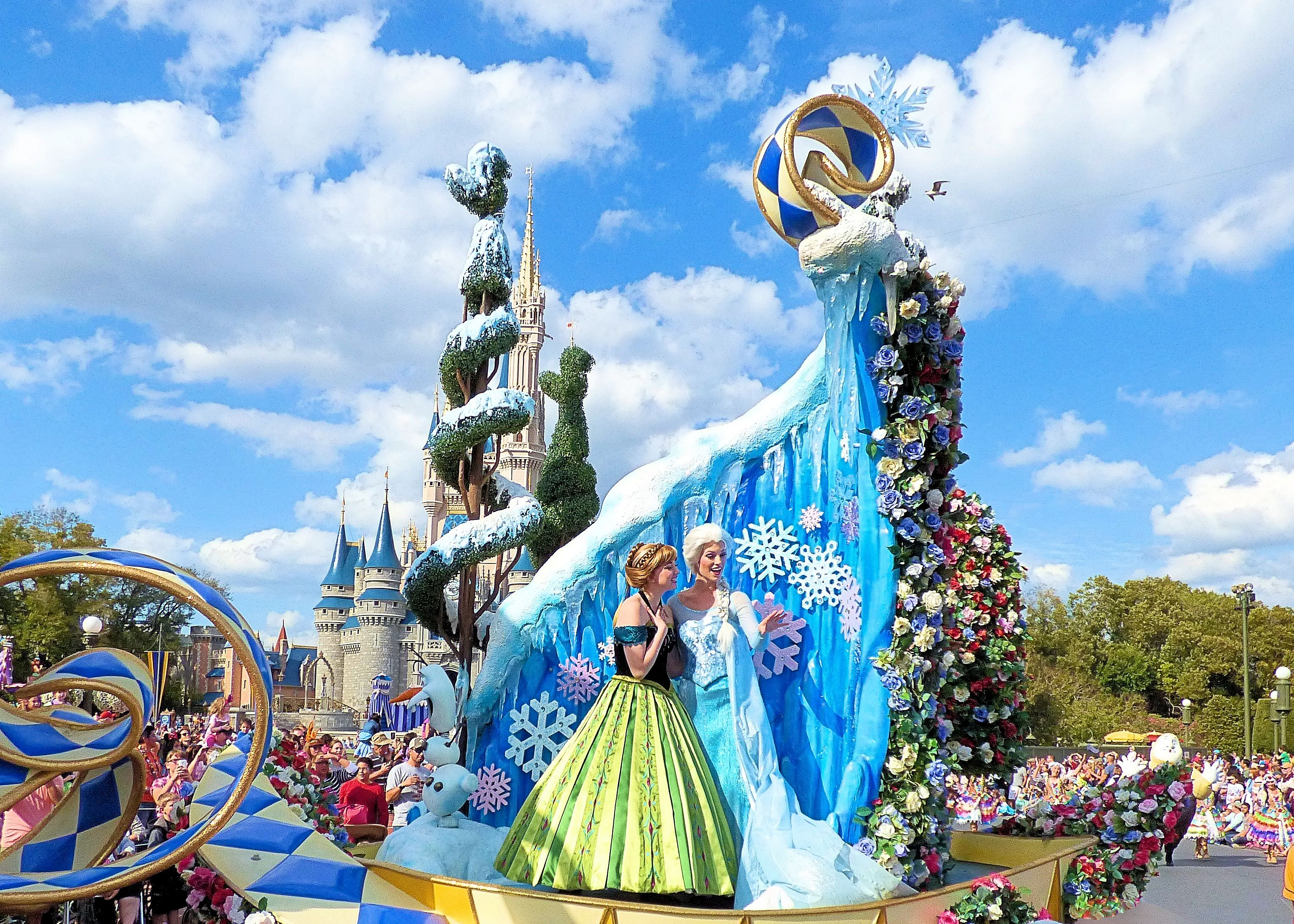 Disney's Festival of Fantasy Parade at Magic Kingdom, Princess Garden Unit